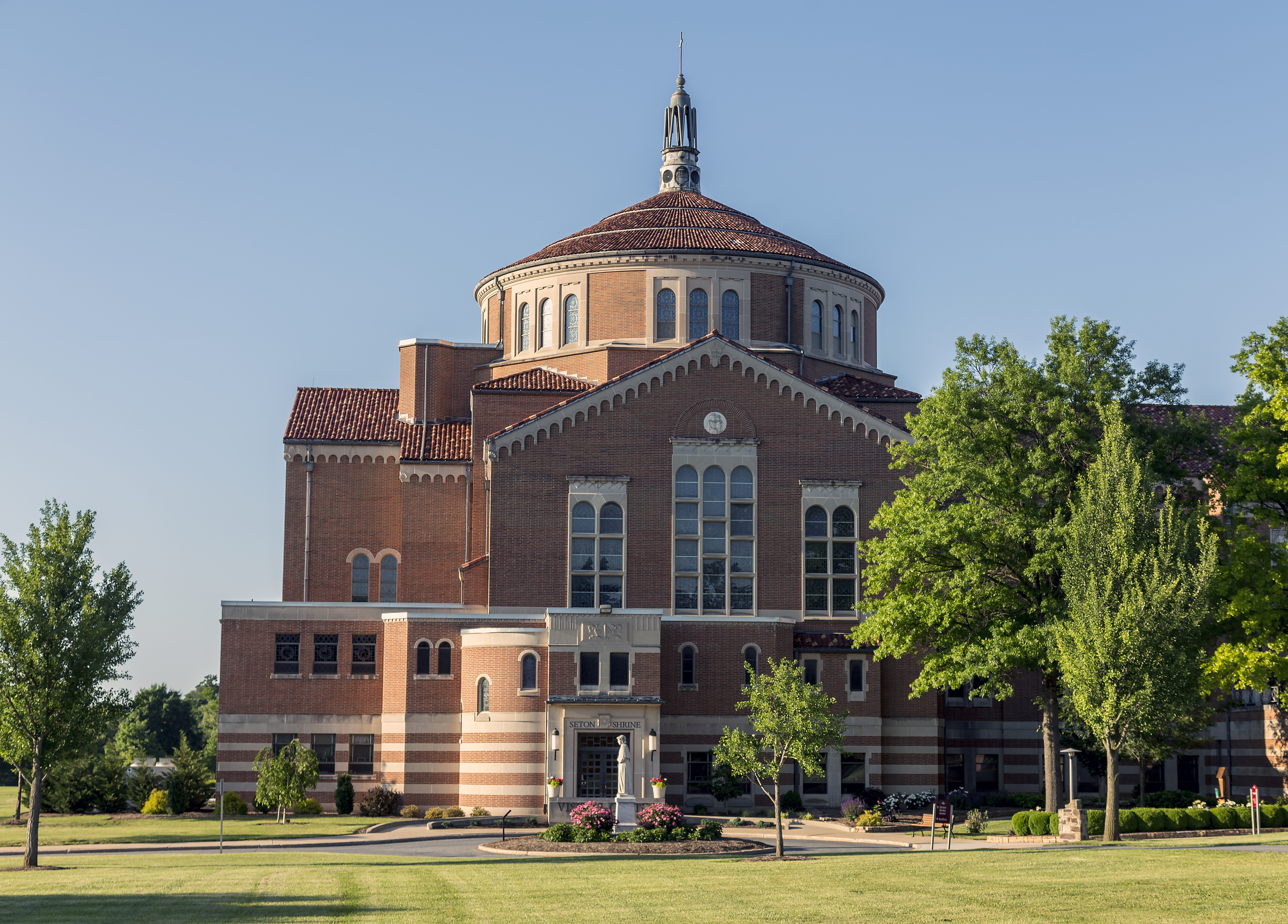 The minor basilica and shire of Saint Elizabeth Ann Seton, Emmitsburg, Maryland, USA